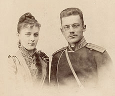 Alexander Kolyubakin and his wife Elena Girs